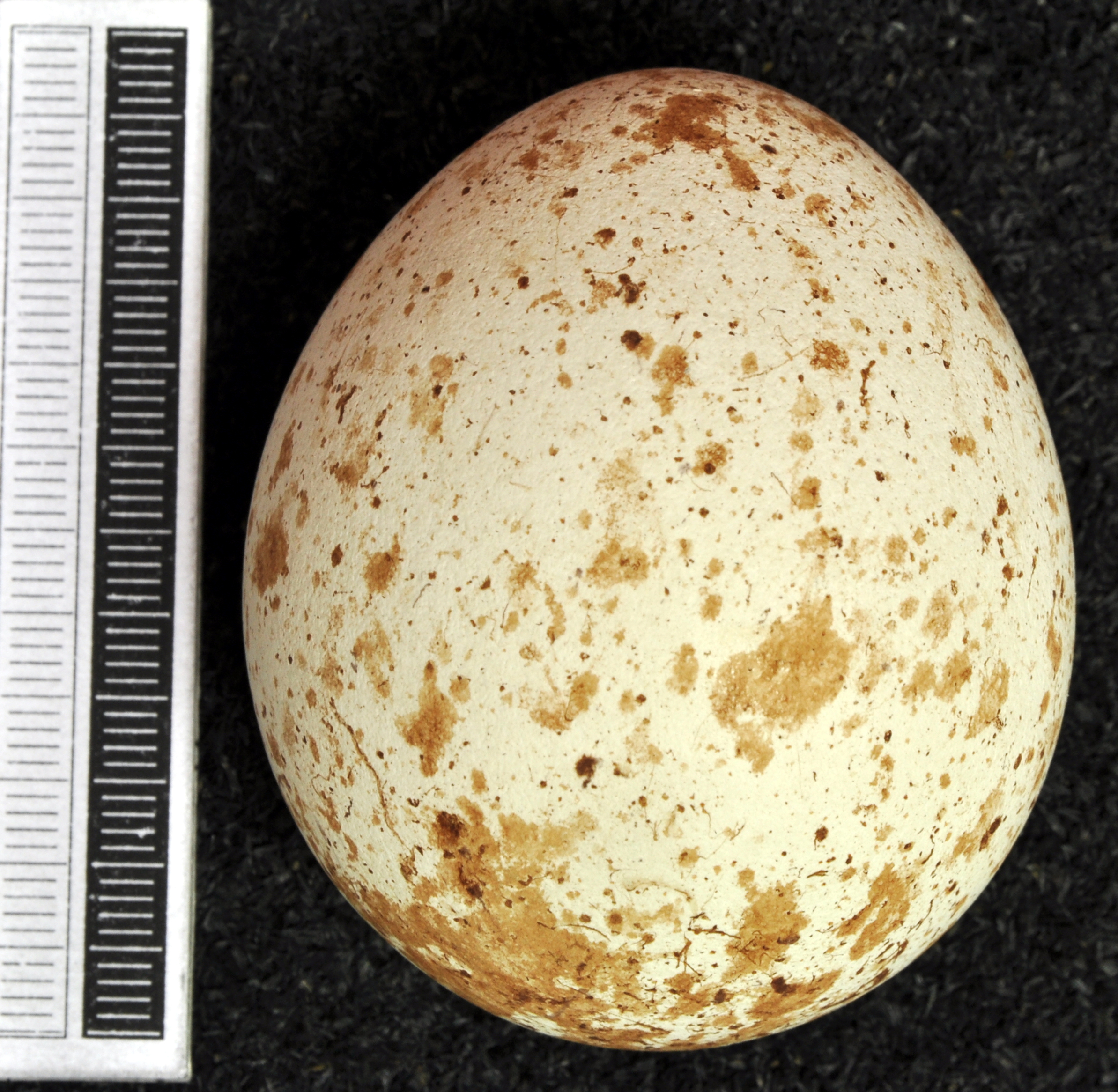 Lesser spotted eagle Aquila pomarina , egg, Coll. Museum Wiesbaden